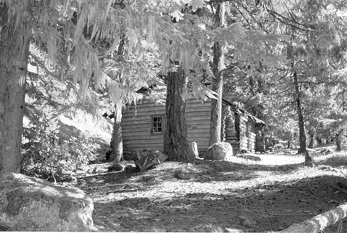 Upper Sandy Guard Station Cabin in Clackamas County, Oregon